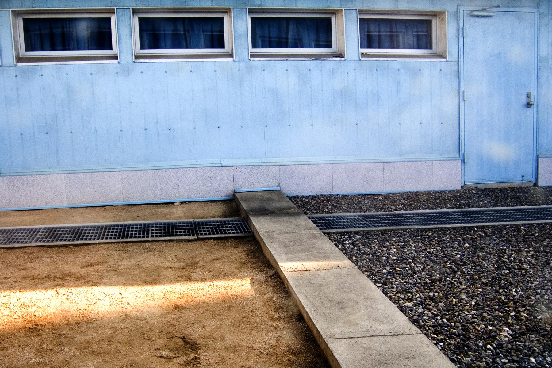 Looking out a window in the JSA conference room. That concrete slab marks the border between North and South Korea!